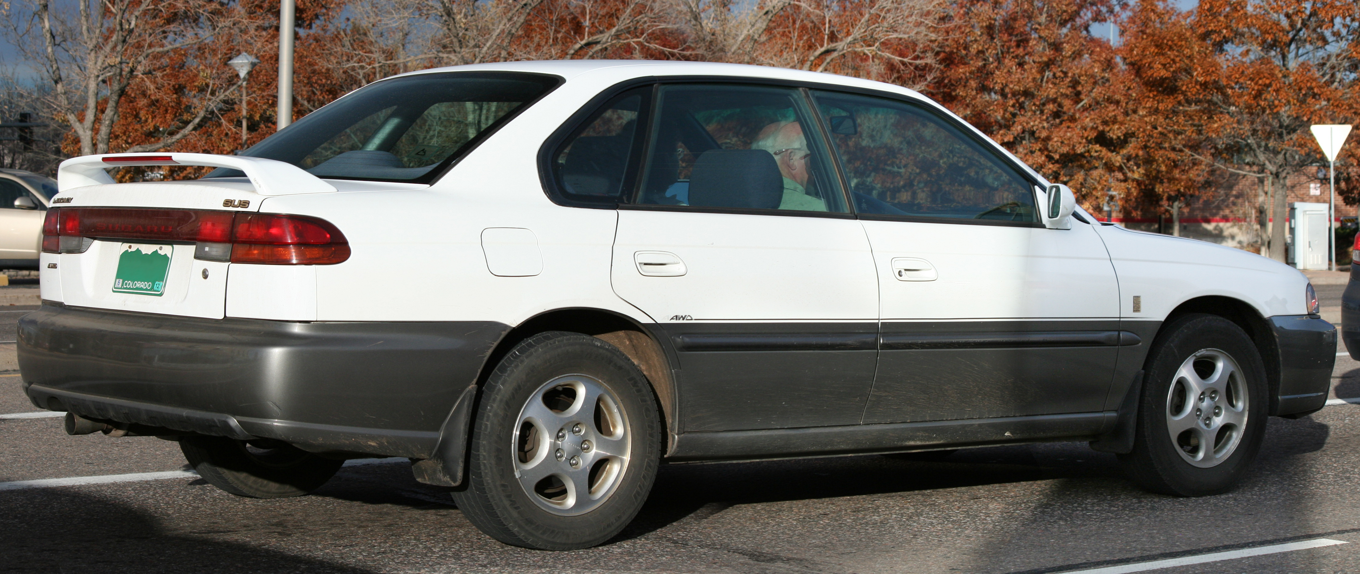 Subaru SUS, an Outback Sedan of the first generation (SUS = Sport Utility Sedan)